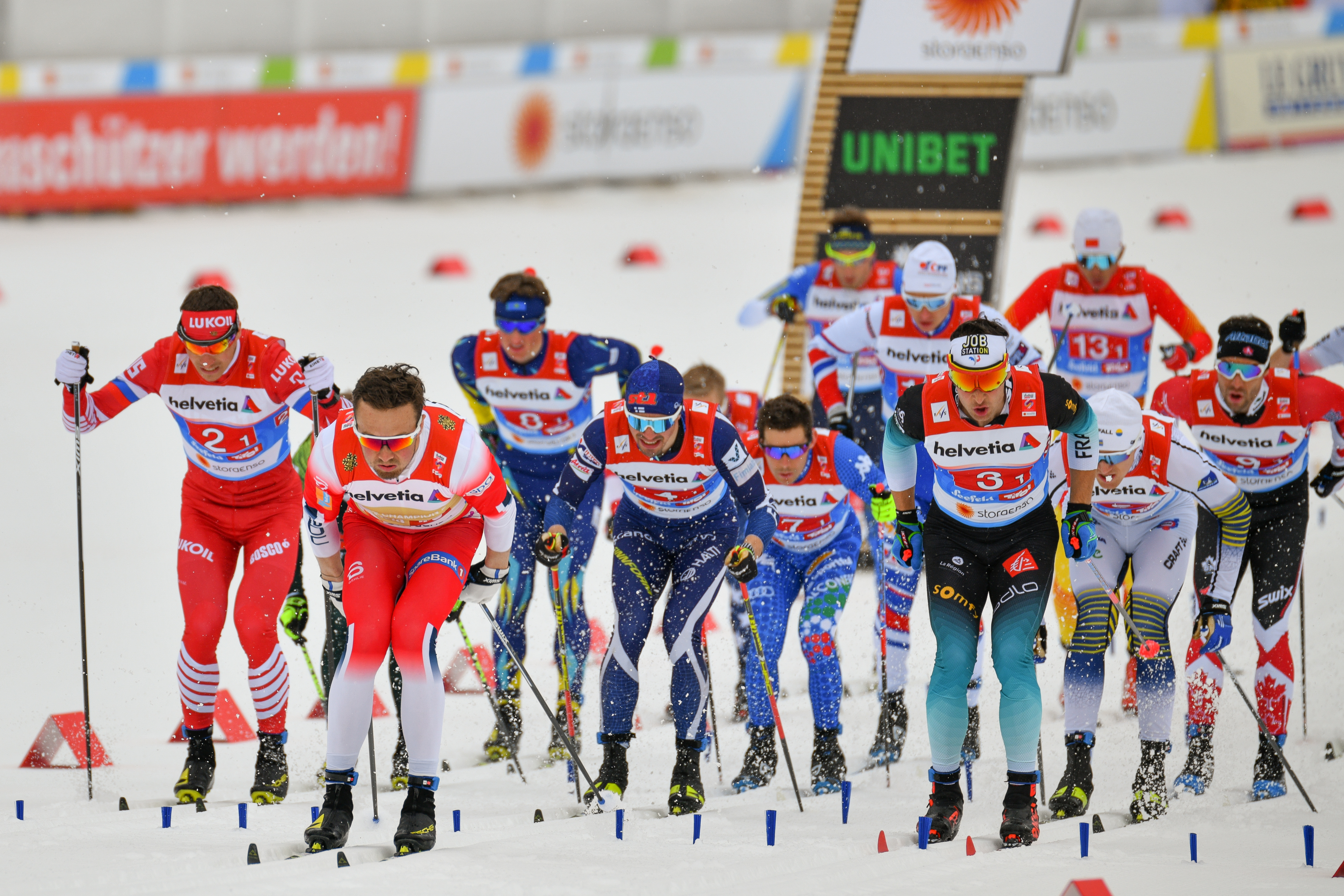 FIS Nordic Wolrd Ski Championships Seefeld 2019 - Men 4x10km Relay Classic/Free. Picture shows Start